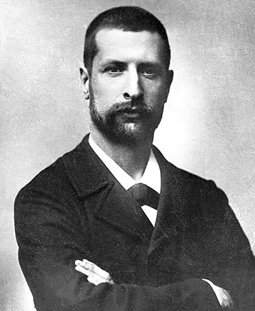 Alexandre Yersin